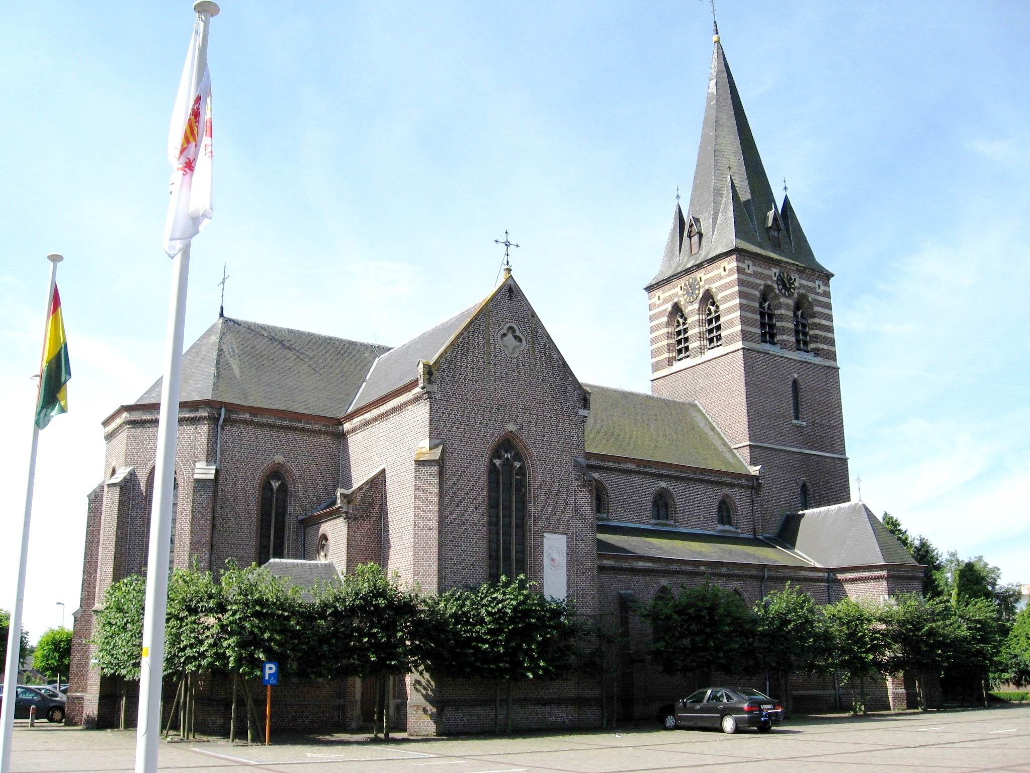 Church of Saint Trudo in Helchteren, Houthalen-Helchteren, Limburg, Belgium